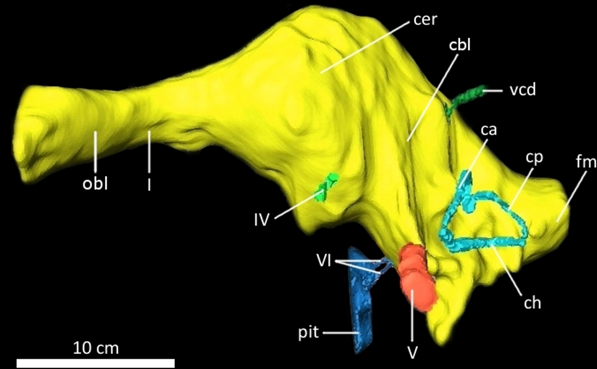 Digital endocranial endocast of the braincase of Acrocanthosaurus atokensis (NCSM 14345) in left lateral view. ca, anterior semicircular canal; cbl, cerebellum; cer, cerebrum; ch, horizontal semicircular canal; cp, posterior semicircular canal; fm, foramen magnum; I, olfactory nerve; IV, trochlear nerve; obl, olfactory bulbs; pit, pituitary; V, trigeminal nerve; vcd, vena capita dorsalis; VI, abducens nerve.